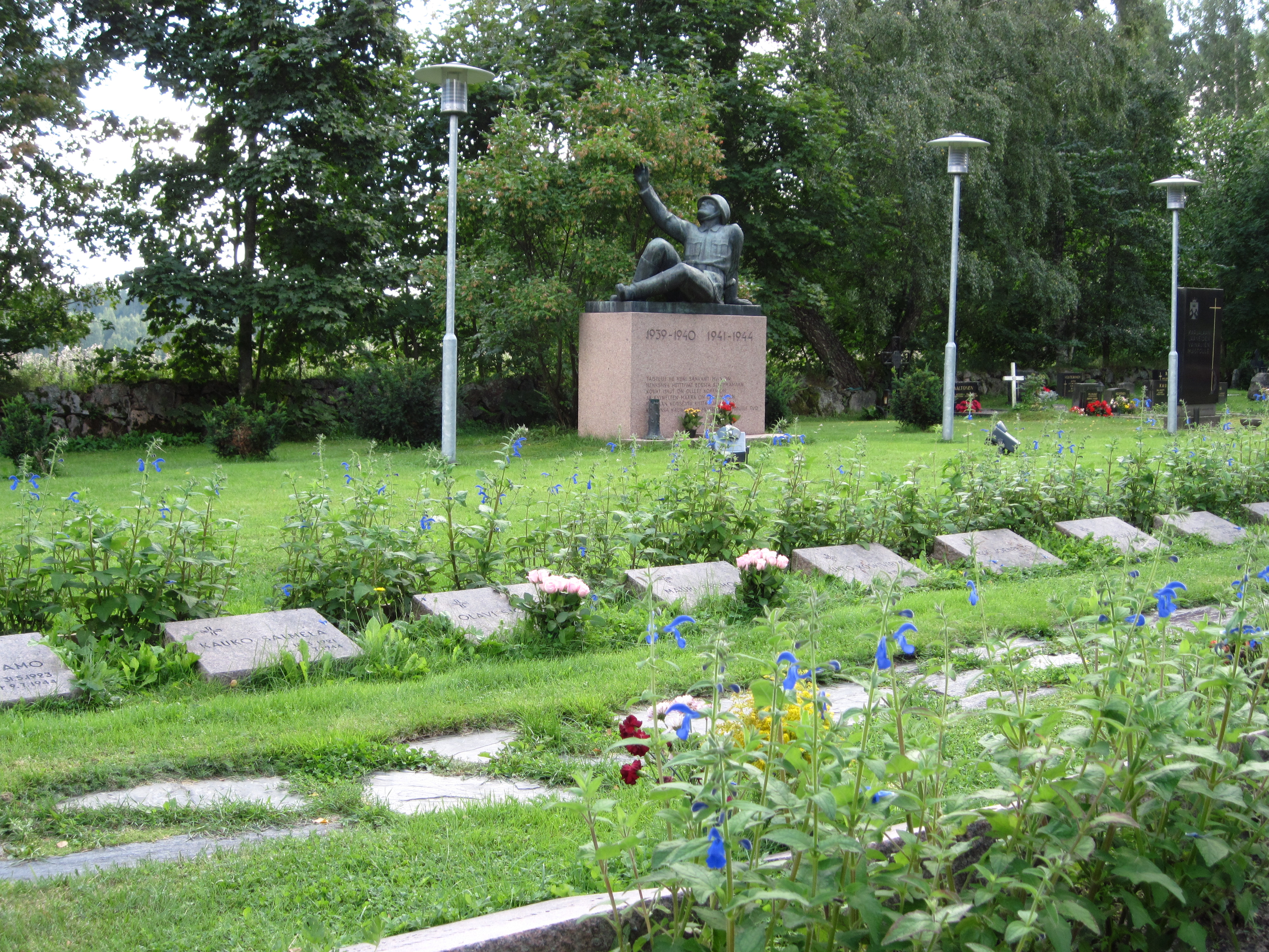 Military cemetary at church in Sammatti, Finland